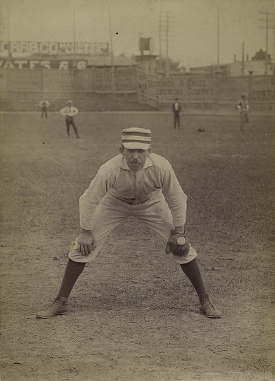 Baseball player Arthur Irwin pictured with the fielder's glove that he created.